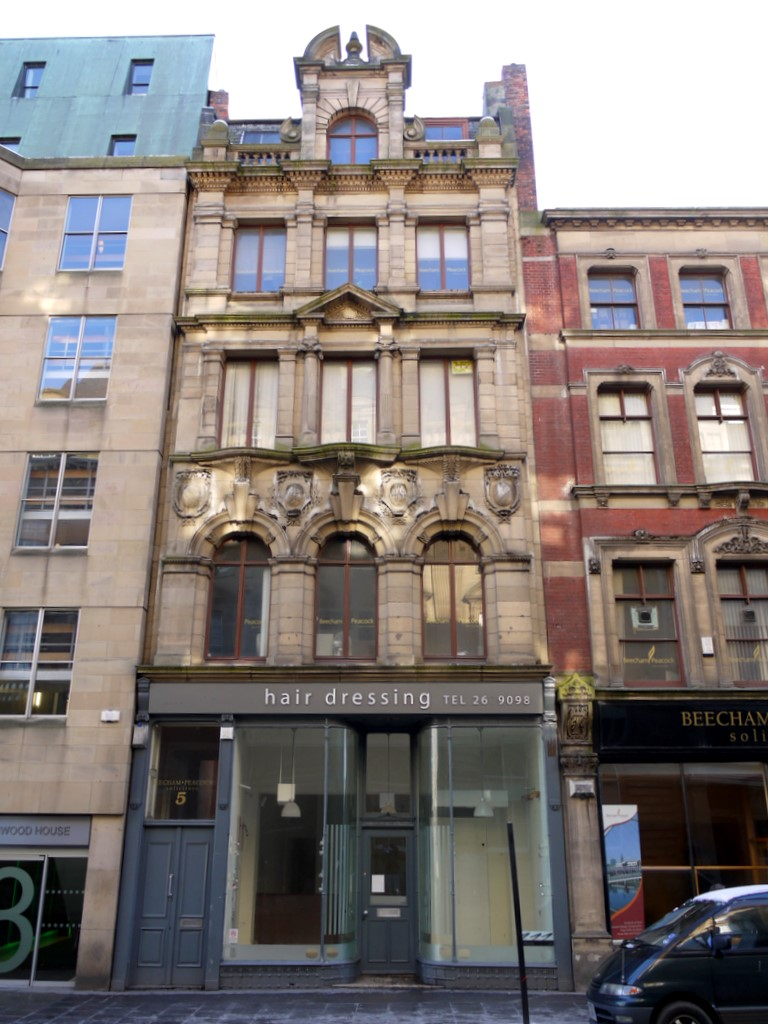 Eno's Building, Collingwood Street Built in 1898 for James Crossley Eno (1827-1915), Newcastle inventor of Eno's Fruit Salts, which became one of the most well known proprietary medicines of the late 1800s and early 1900s. The product was spread world-wide by sailors and sea-captains as a relief from 'sea-sickness, fever and change of climate', from his factories in Newcastle's Groat Market and then New Cross, London. Eno's Fruit Salt is still being manufactured today by GlaxoSmithKline. The building is described here